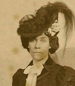 Cut out of Marya Delvard from a Picture with Carl Hollitzer and Marc Henry